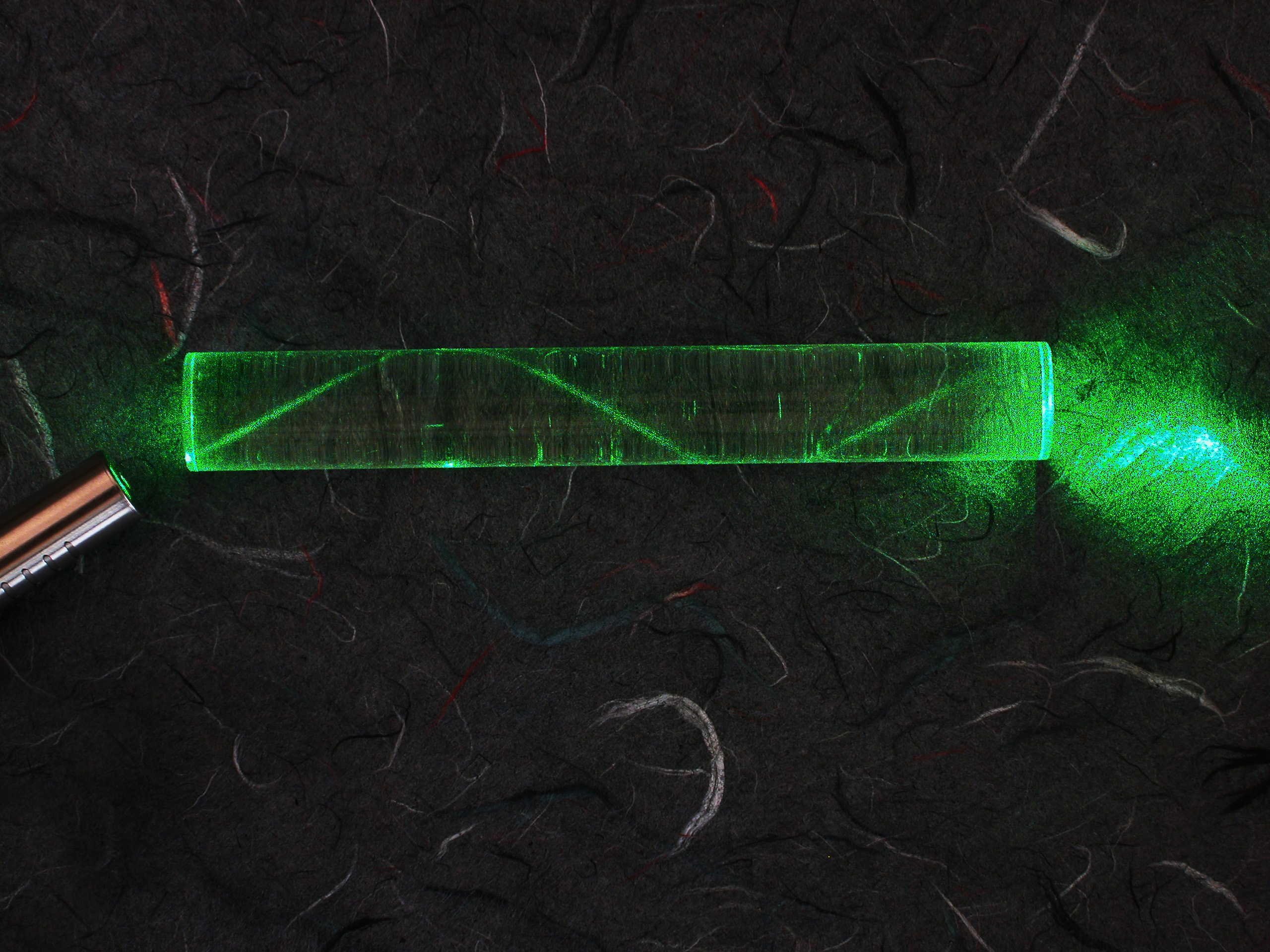 A laser bouncing down a perspex rod illustrating the total internal reflection of light in a multimode optical fibre